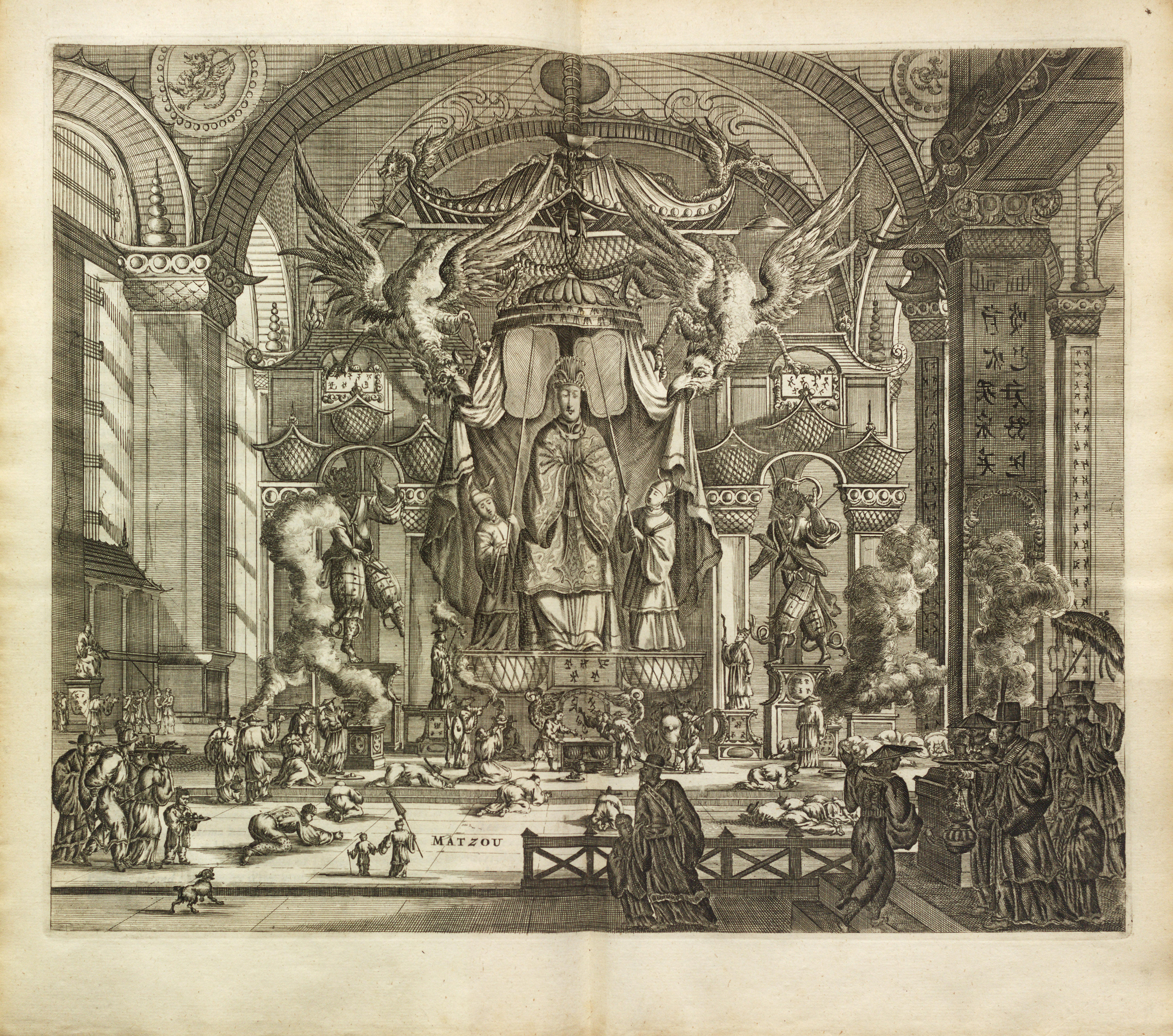 Illustration from Olfert Dapper (1670): Gedenkwaerdig bedryf der Nederlandsche Oost-Indische maetschappye